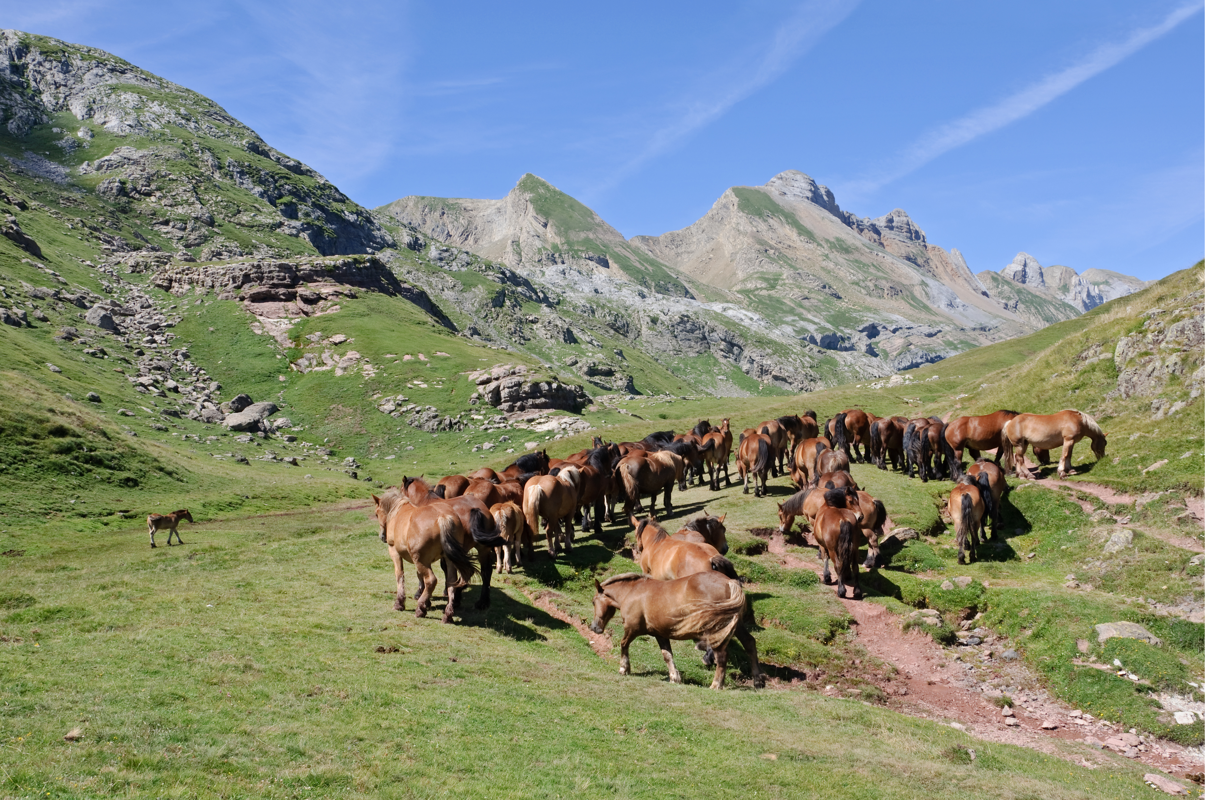 Herd of horses on summer mountain pasture in the Pyrenees, near the lake of Estaens (Ibón de Estanés).